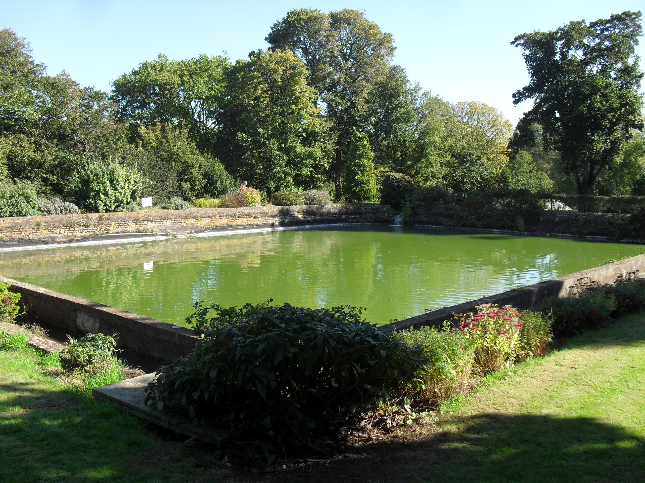 Former cooling pond and leat at the British Engineerium, The Droveway, West Blatchington, Hove, City of Brighton and Hove, England. Part of the former Goldstone Pumping Station, a waterworks built in 1866. Now a museum; pictured here on a rare open day during a period of long-term renovation. Listed at Grade II by English Heritage (IoE Code 365679)